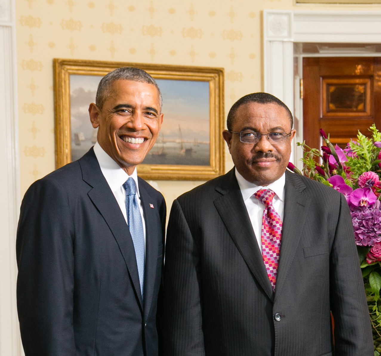 President Barack Obama and First Lady Michelle Obama greet His Excellency Hailemariam Desalegn, Prime Minister of the Federal Democratic Republic of Ethiopia, and Ms. Roman Tesfaye, in the Blue Room during a U.S.-Africa Leaders Summit dinner at the White House, Aug. 5, 2014. [Official White House Photo by Amanda Lucidon] This official White House photograph is in the public domain from a copyright perspective, so while restrictions such as personality or privacy rights may apply, in general, manipulations are allowed.